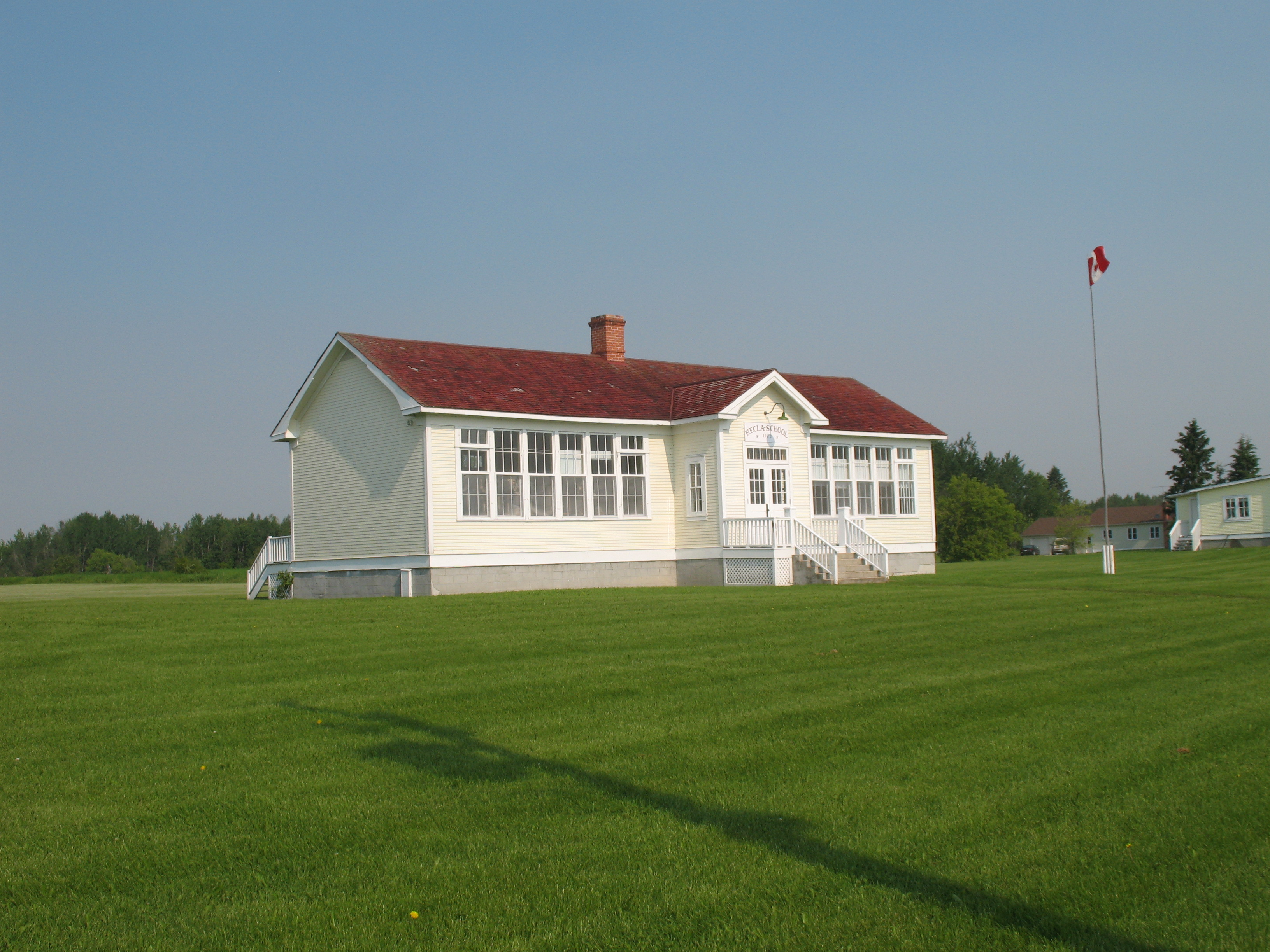 School on Hecla Island, Manitoba